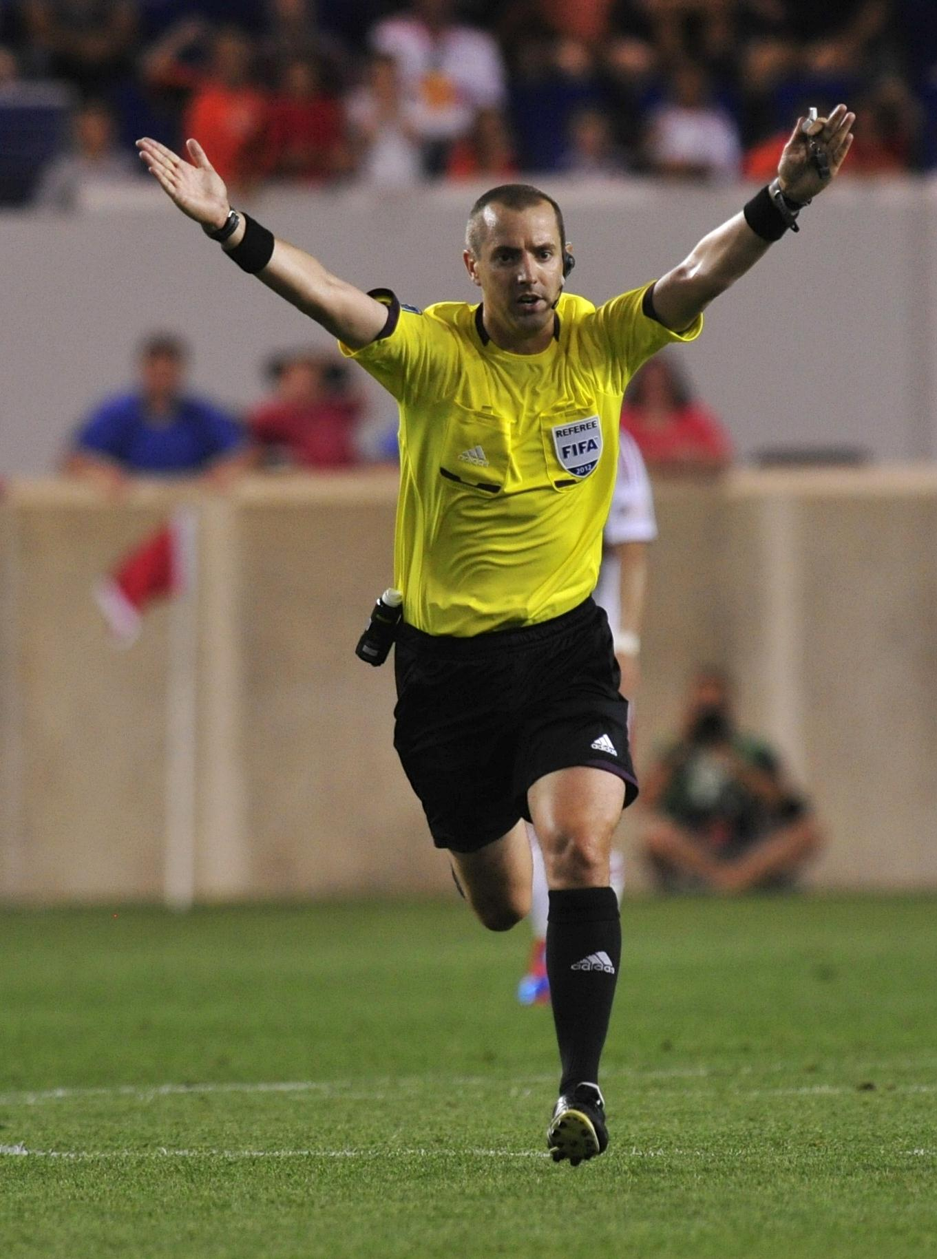 American soccer (football) referee Mark Geiger giving the signal for "advantage" during a Major League Soccer game (New York Red Bulls vs DC United, June 24,2012).